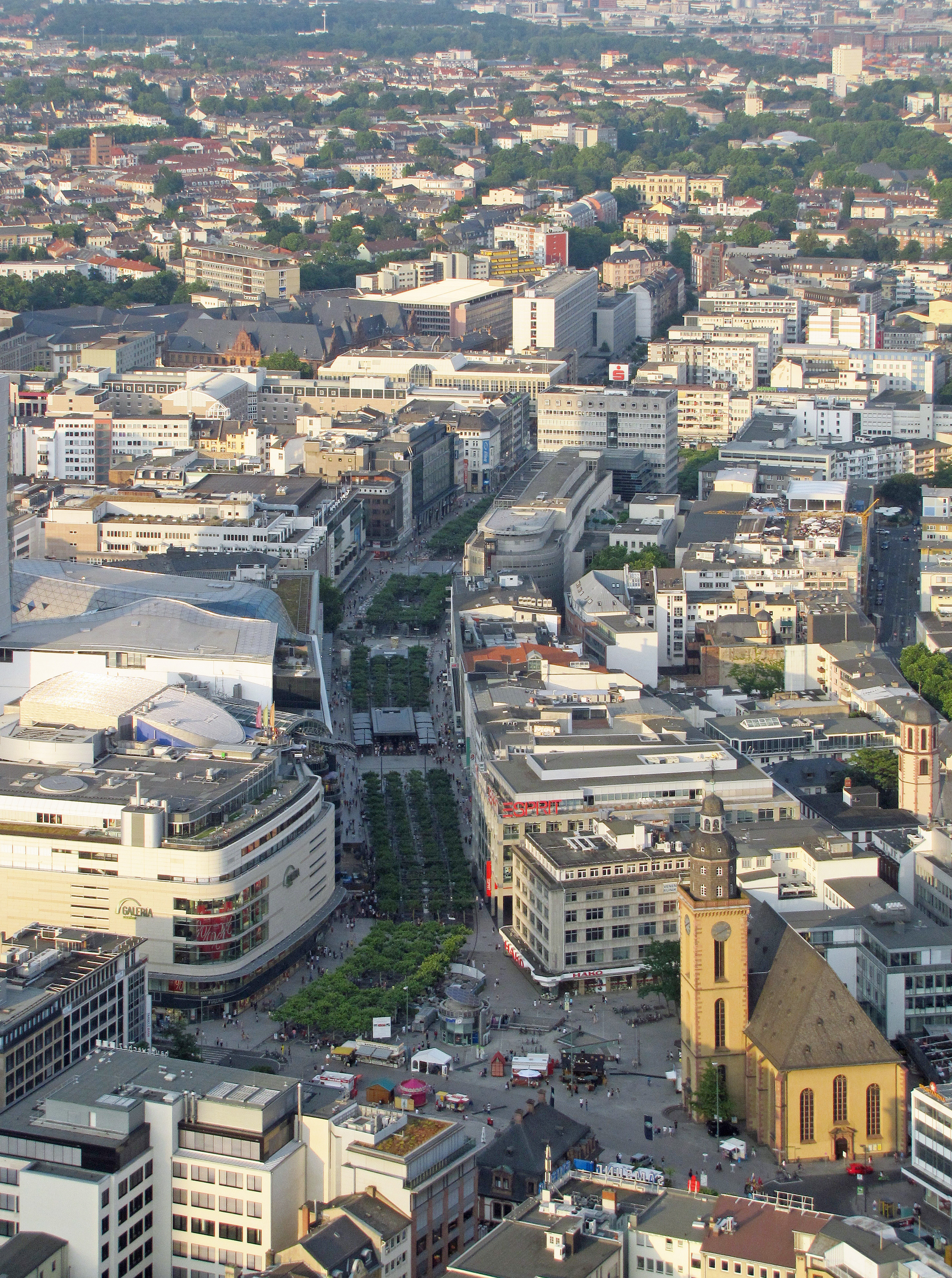 The street "Zeil" (2010), in Frankfurt am Main, Hesse, Germany